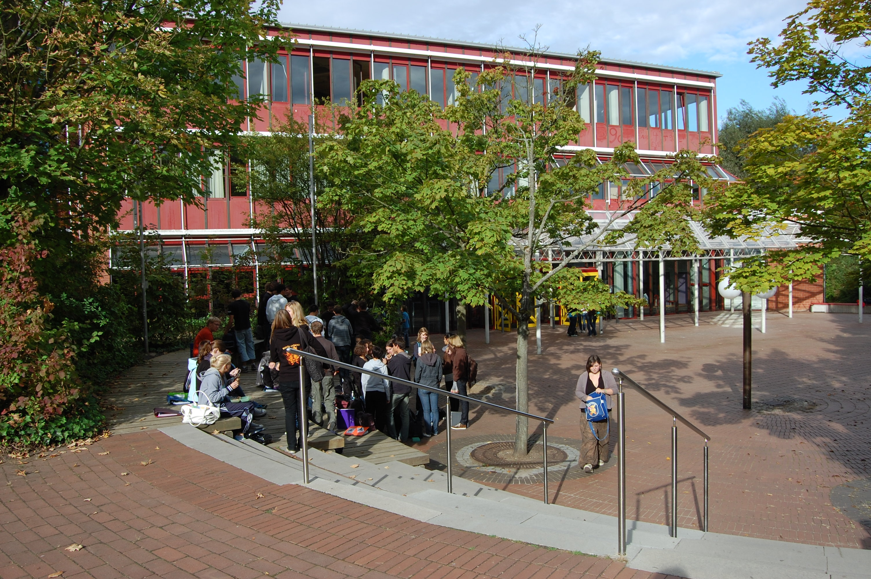 The main entrance of the highschool of Nieder-Olm